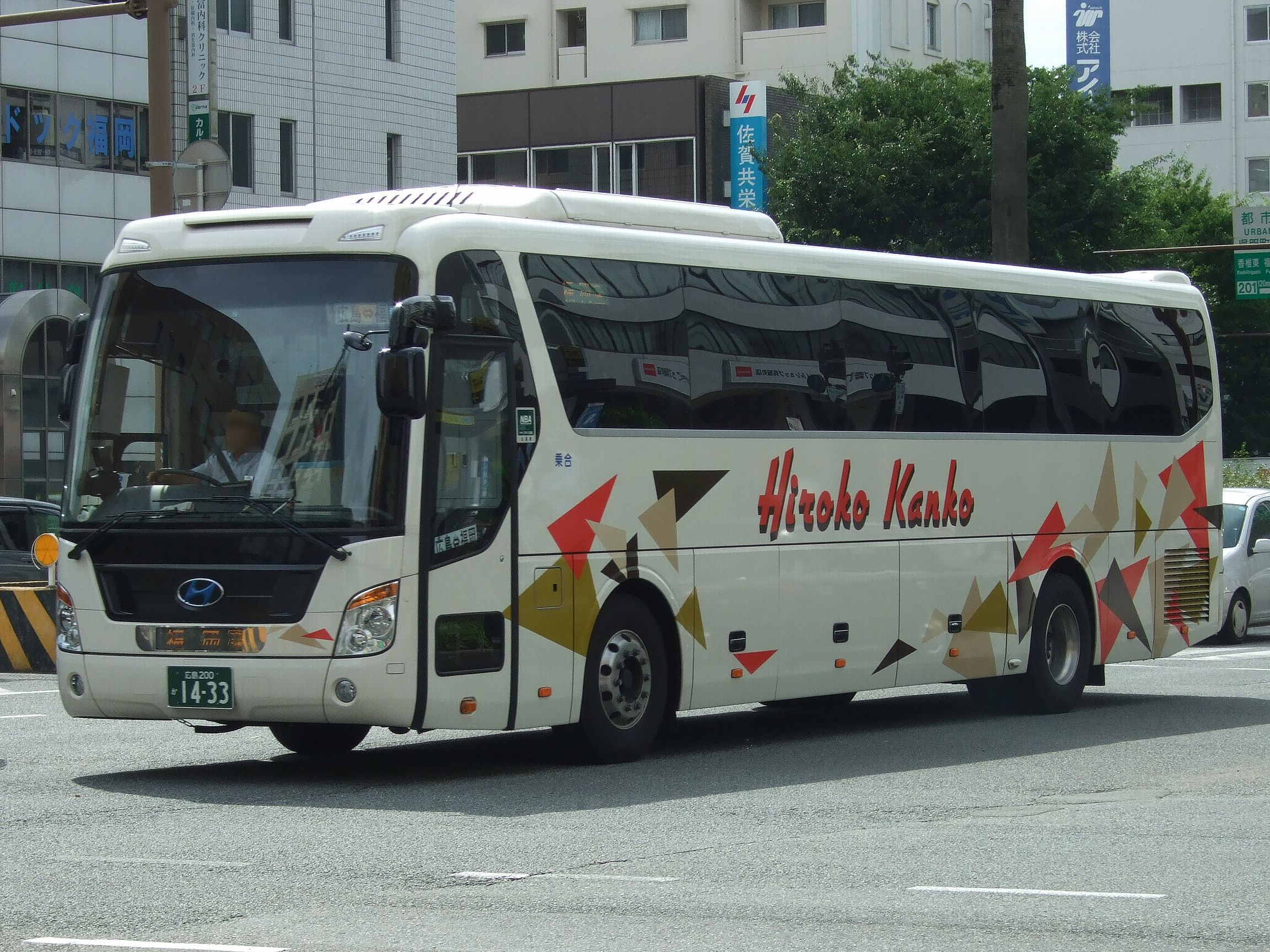 Express bus“Kofuku-liner” / Company=Hiroko Kanko / Car license=広島200 か 1433 / Use=omnibus (Express bus) / Belongs_to= Ochiai depot / Chassis= Hyundai Motor Company LDG-RD00 / Place= in Fukuoka City, Fukuoka, Japan